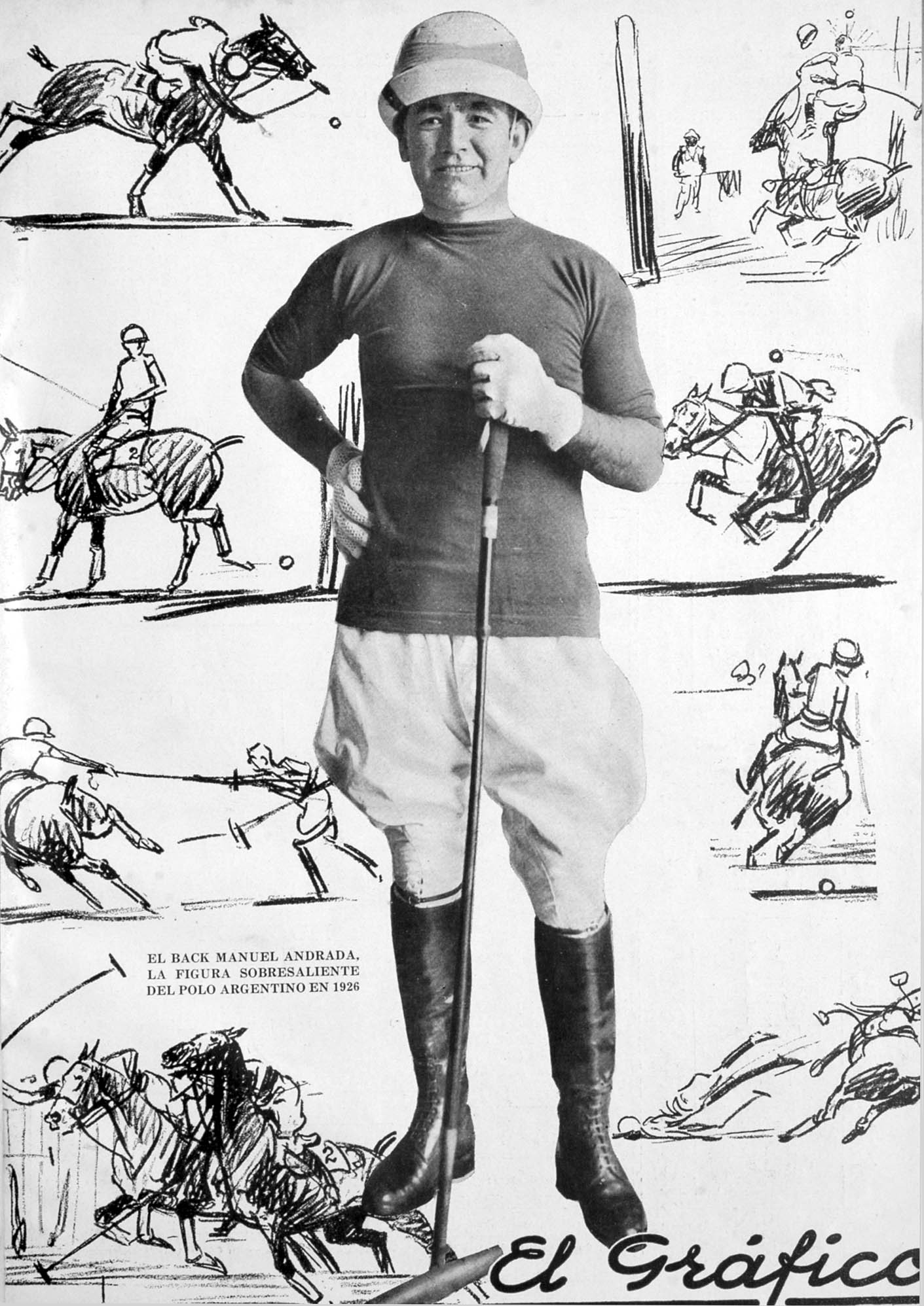 Manuel Andrada, Argentine polo player. Some drawings at background.